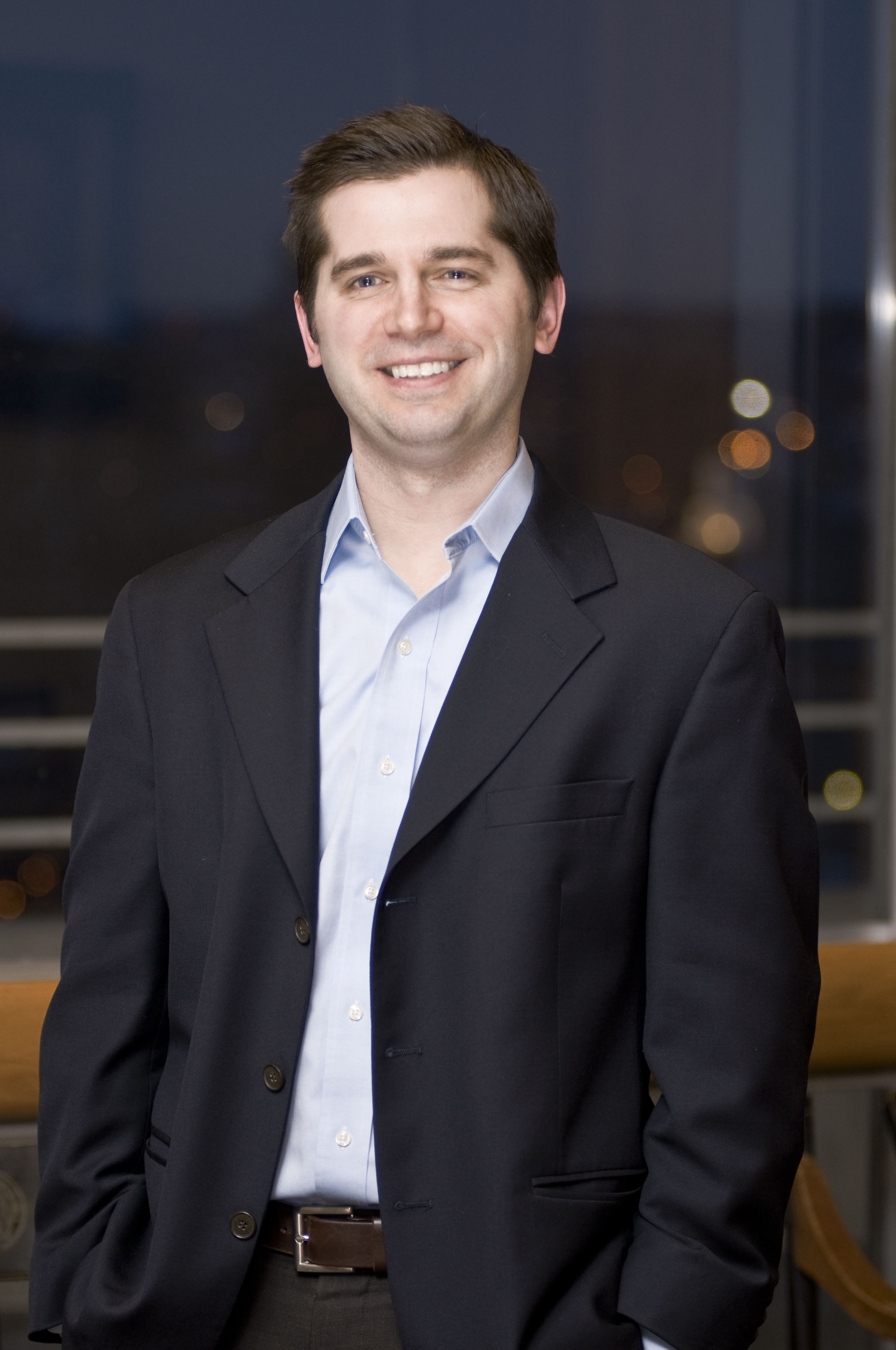 Photo of Matthew Nock (credit: Nicolas Guevara)